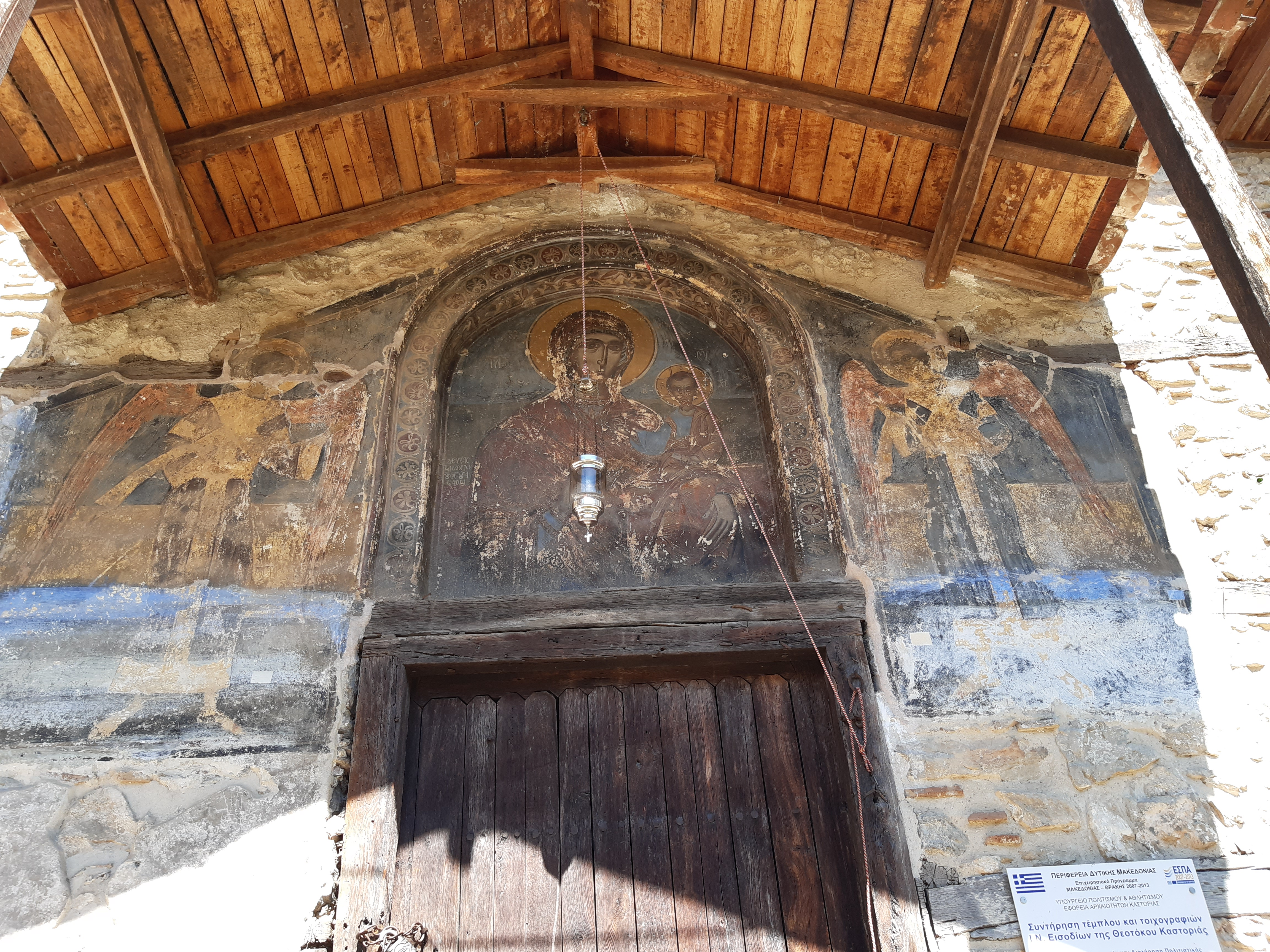 Presentation of Mary Church, Kastoria